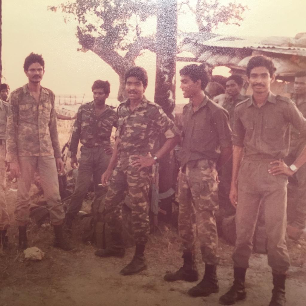 During Operations in the North of Sri Lanka